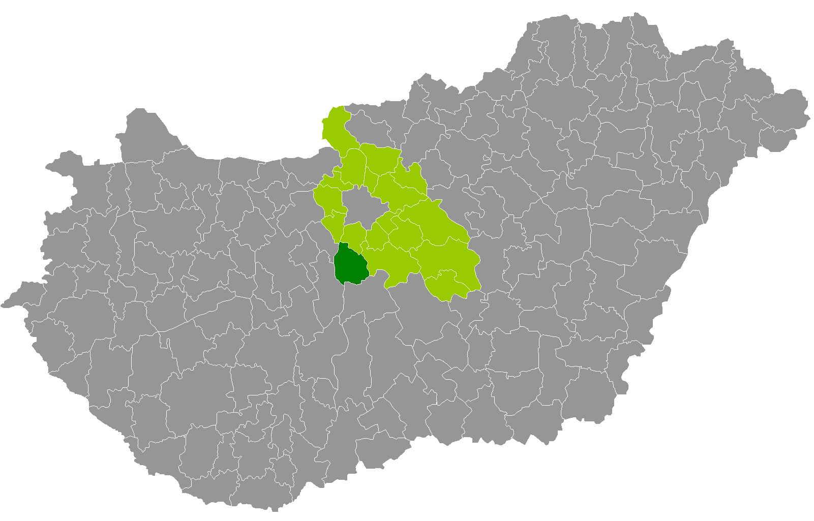 Location of Ráckeve District, Pest, Hungary